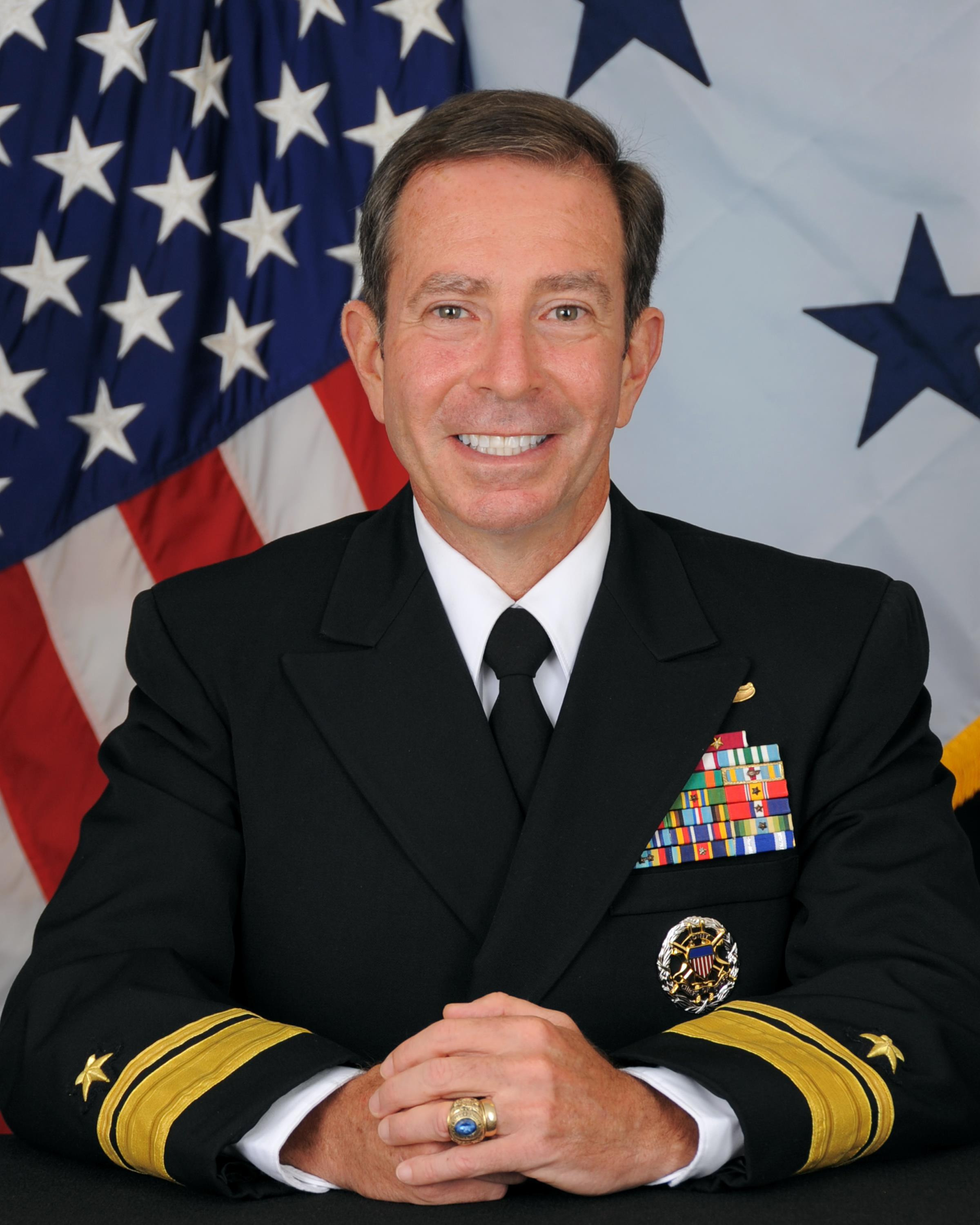 Rear Admiral Paul Becker serves as Director for Intelligence, J2.